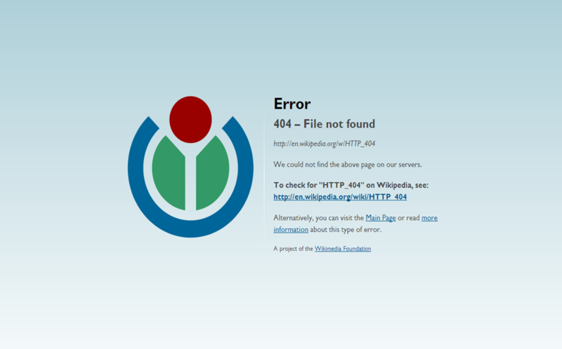 HTTP 404 on Wikipedia